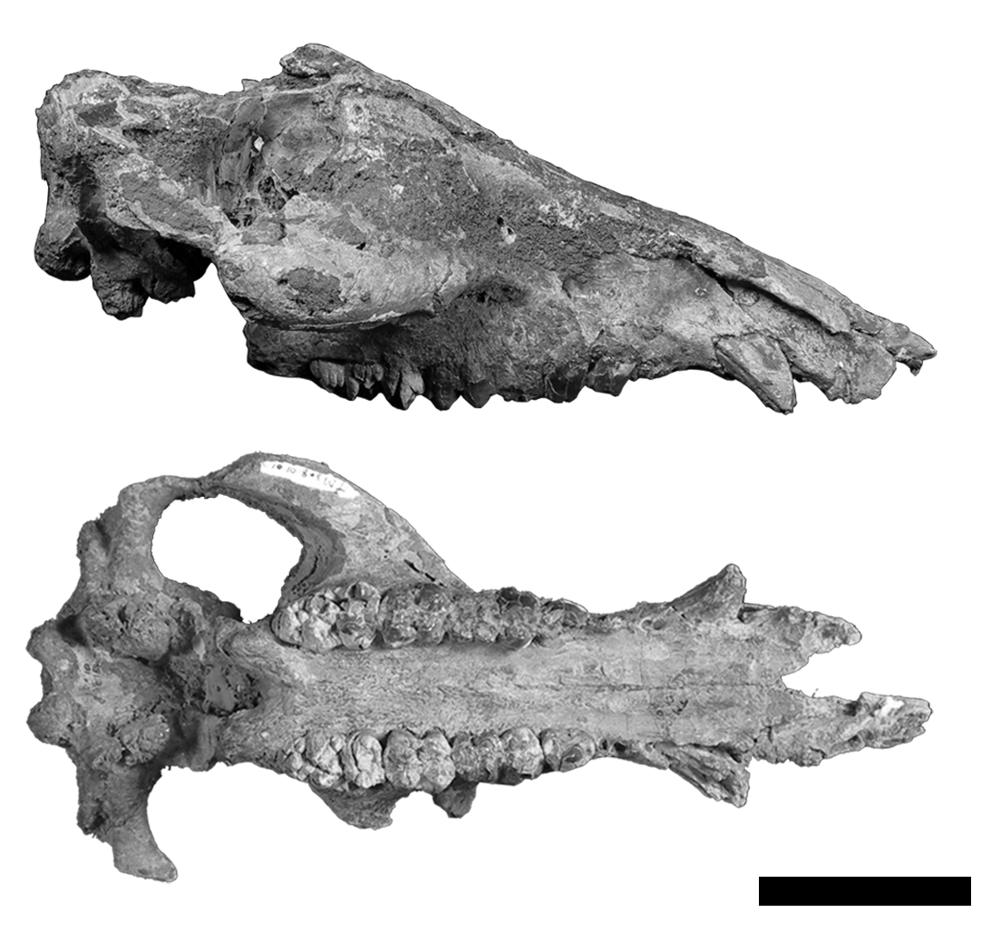 Female partial cranium in lateral (top) and ventral (below) view. Scale bars equal 10 cm